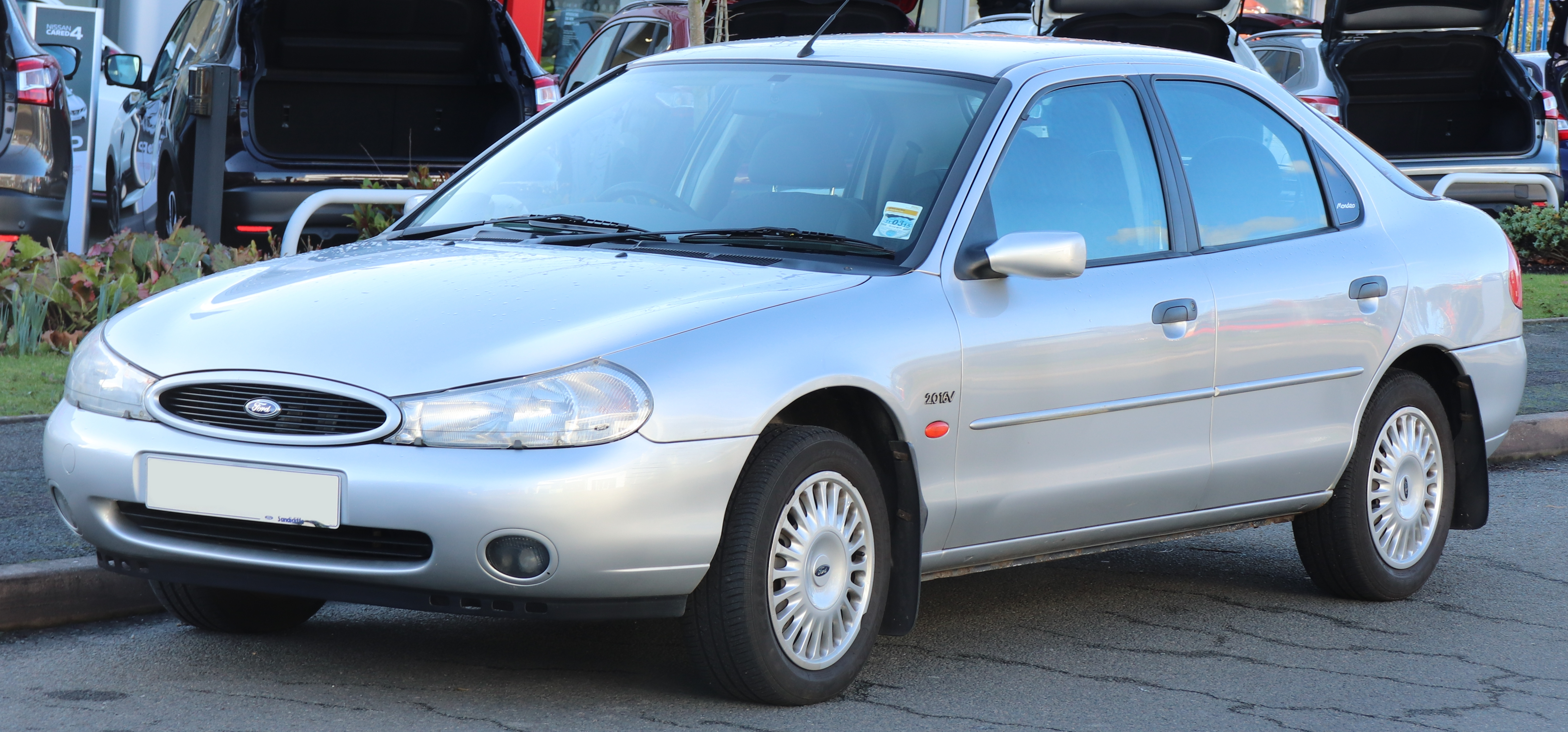 2000 Ford Mondeo LX 2.0 Front Taken in Leamington Spa